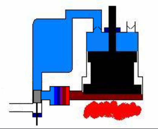 This image is one representation of an Ericsson Engine. A cold gaseous working fluid, such as atmospheric air (shown in blue), enters the cylinder via a non-return valve at the top-right. The air is compressed by the piston (black) as the piston moves upward. The compressed air is stored in the pneumatic tank (at left). A two-way valve (gray) moves downward to allow pressurized air to pass through the regenerator where it is preheated. The air then enters the space below the piston, which is an externally-heated expansion-chamber. The air expands and does work on the piston as it moves upward. After the expansion stroke, the two-way valve moves upward, thus closing off the tank and opening the exhaust port. As the piston moves back downward in the exhaust stroke, hot air is pushed back through the regenerator, which reclaims most of the heat, before passing out the exhaust port (left) as cool air.